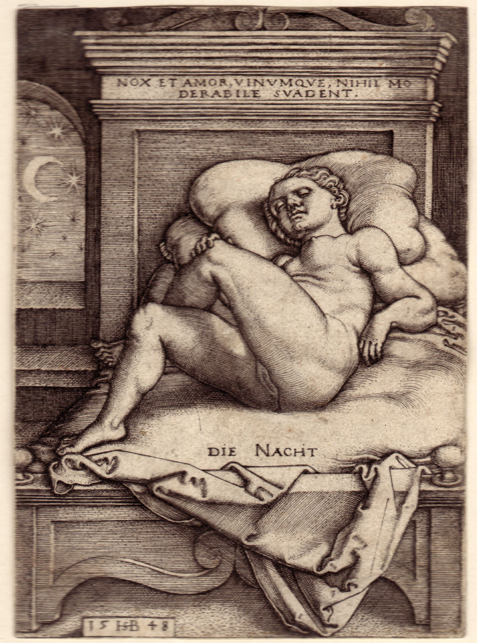 Beham, (Hans) Sebald (1500-1550): Die Nacht (B. 153; P., Holl. 154 i/iii), engraving, 1548, a very good impression, apparently of the extremely rare first state (of three), with a skilfully made-up area at the centre of the subject, another smaller made-up area at the lower left, trimmed approximately 2 mm. inside the platemark above and just inside the platemark elsewhere, stuck down at three corners. S. 108 x 78 mm.